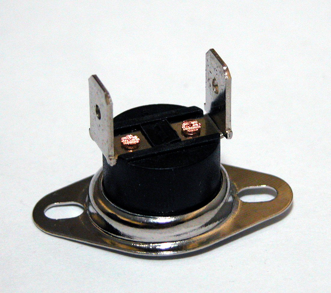 Automatic control thermostat. Current rating: 5 amps